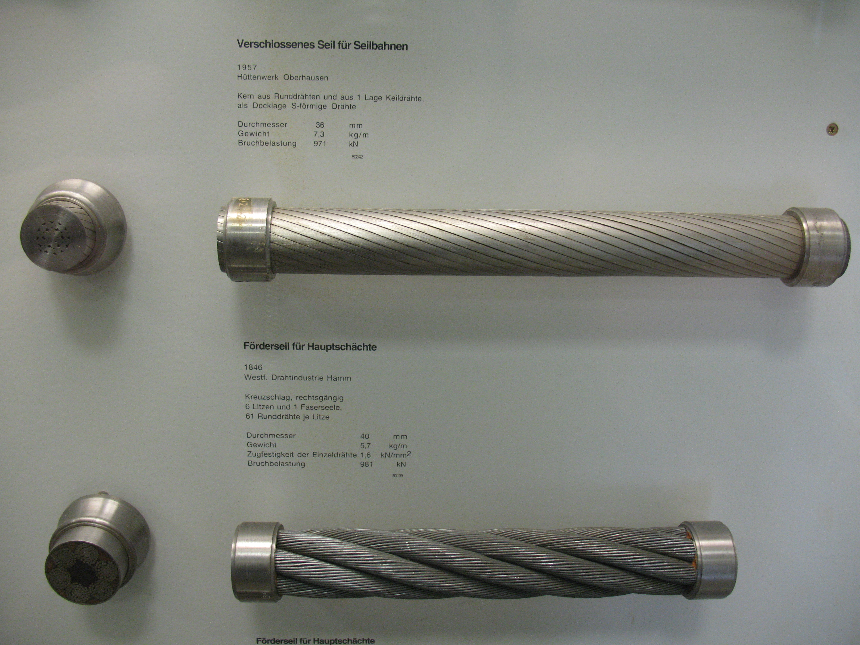 German Mining Museum in Bochum